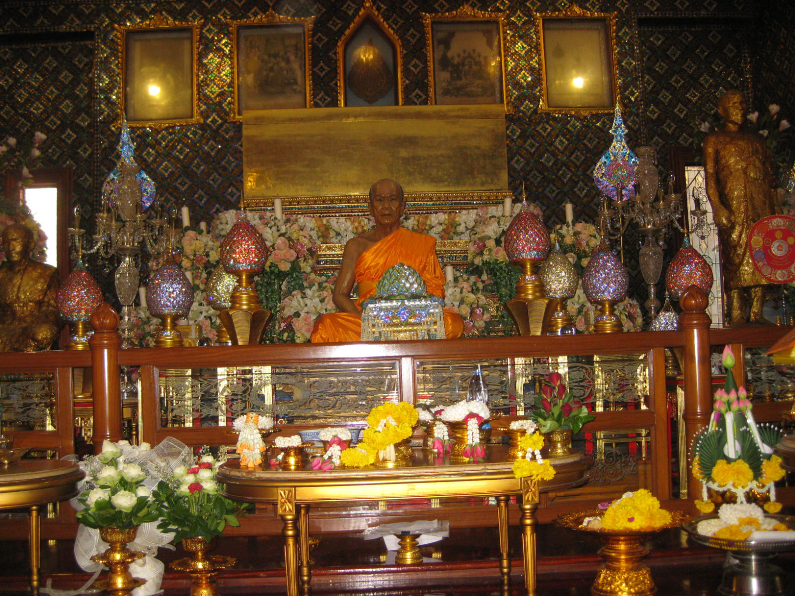 Wat Pak Nam, Phasi Charoen District, Bangkok